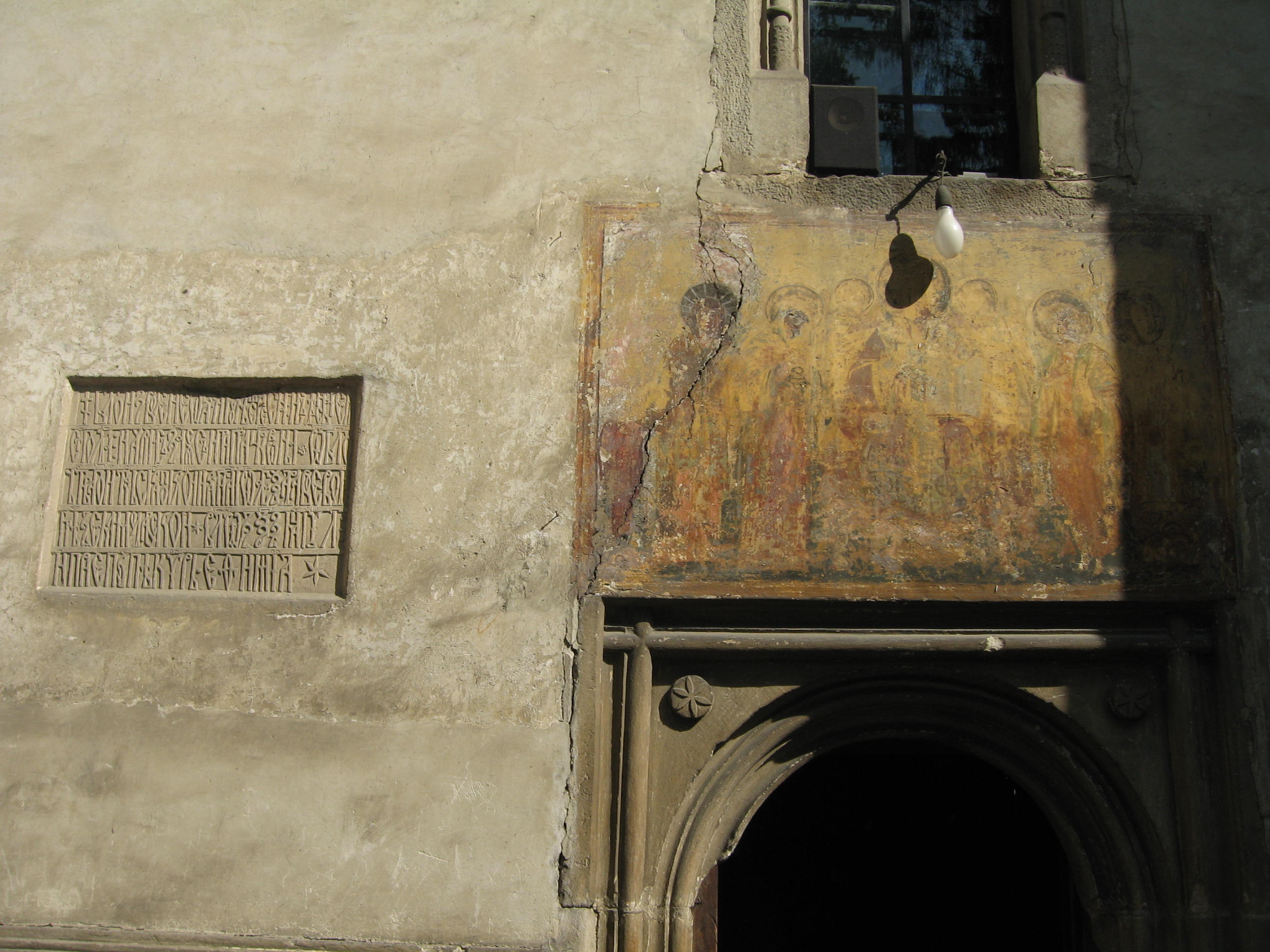 Bogdana